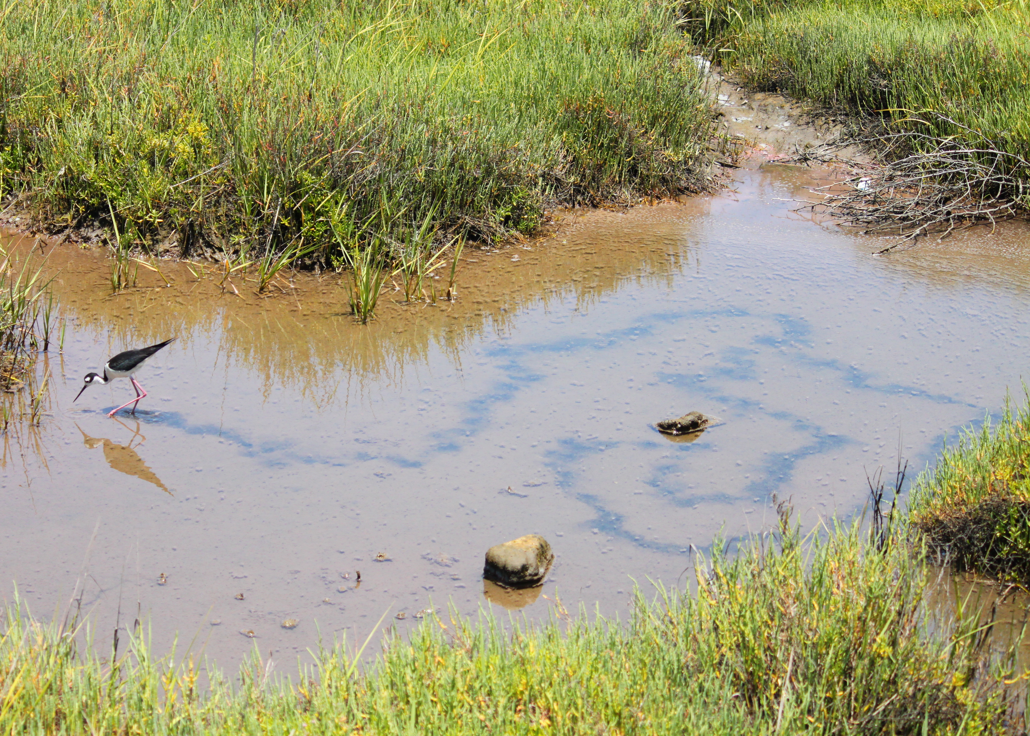 A Black-necked Stilt meanders in a shallow salt marsh at Bolsa Chica Ecological Reserve near Huntington Beach, California.